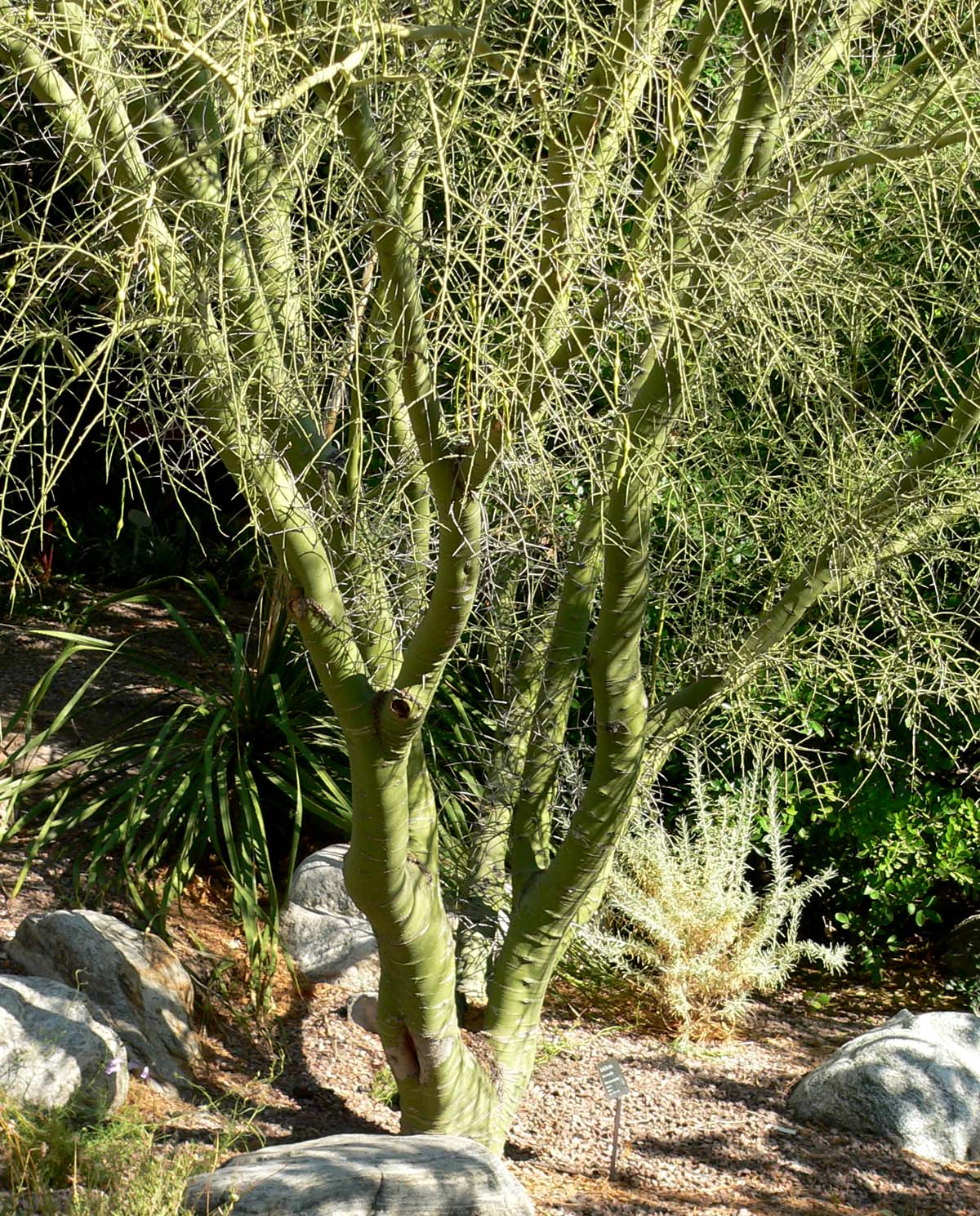 Photo of Parkinsonia microphylla (foothills palo verde) at the Springs Preserve garden in Las Vegas, Nevada